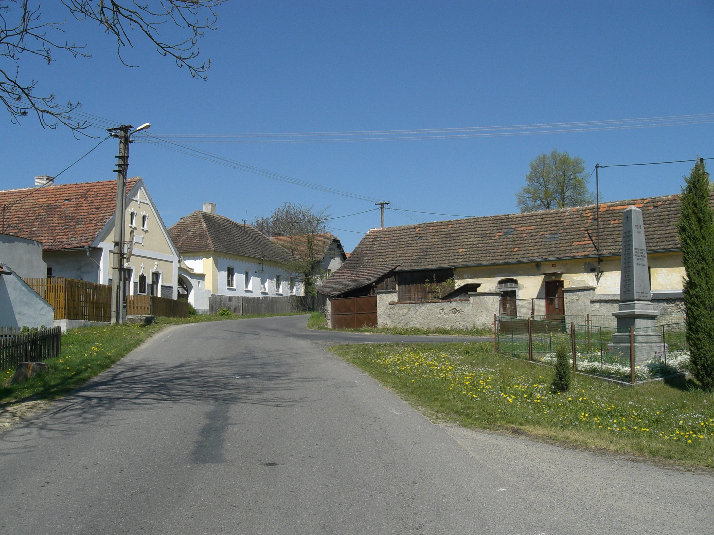 Vlastec village in Písek district, Czech Republic.